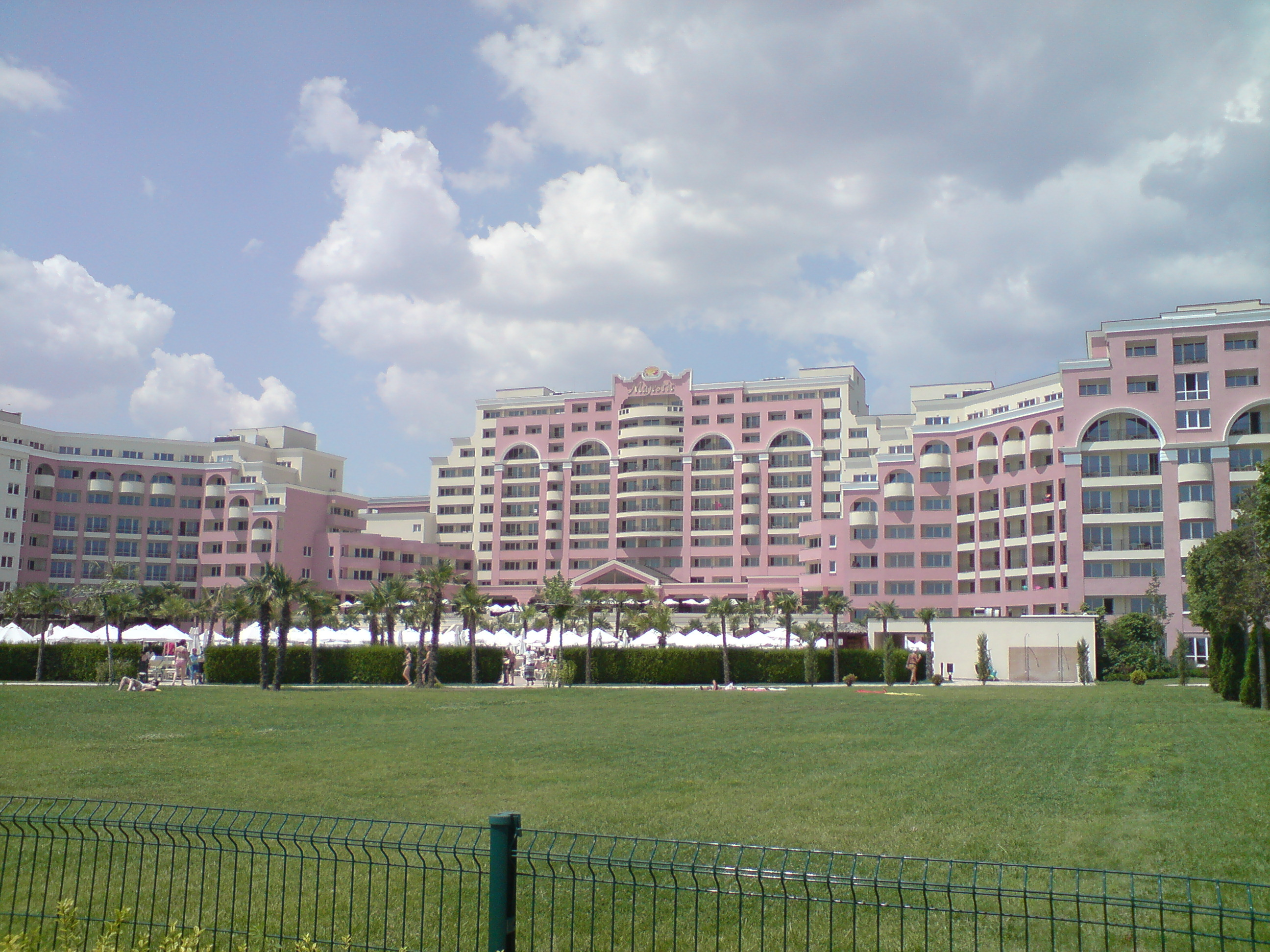 Sunny Beach, Bulgaria, july/august 2008